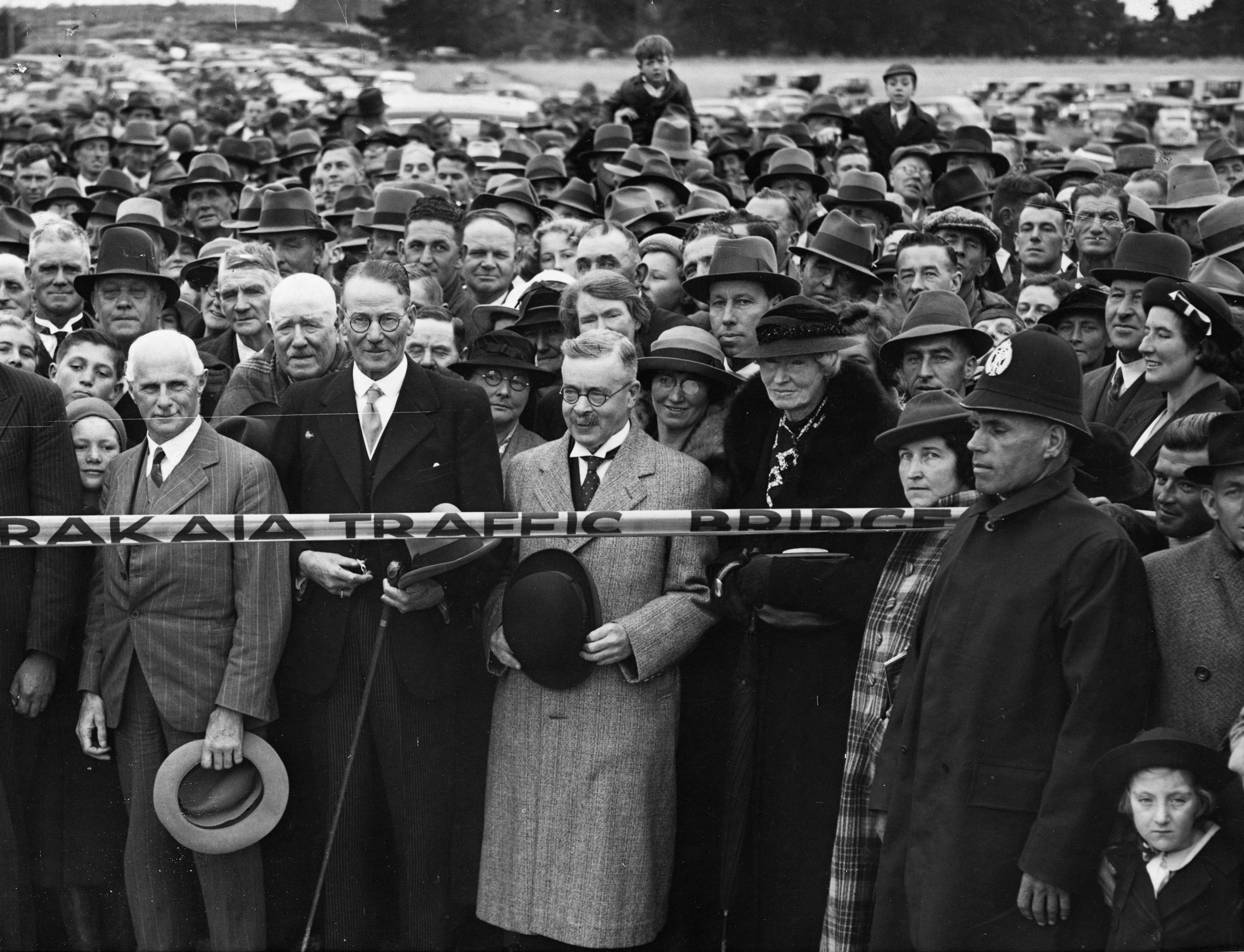 Robert Semple, about to open the Rakaia Bridge, taken by an unidentified photographer.